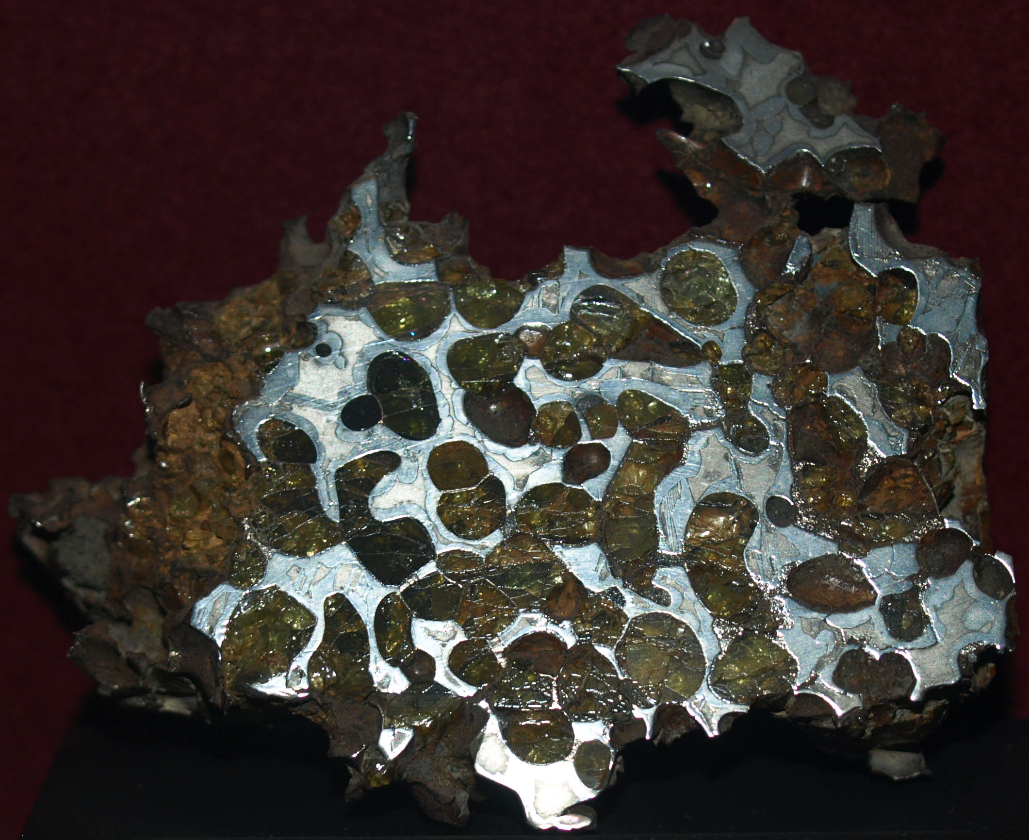 An olivine pallasite meteorite, originally from Krasnojarsk, Russia, collected in 1749. On display at the Naturhistorisches Museum, Vienna.